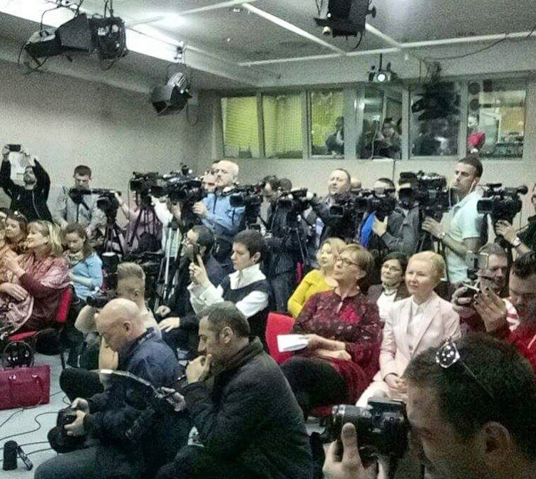 Press conference about the Declaration on the Common Language, Mediacentar Sarajevo. In the audience sitting from left to right: linguist from Montenegro Rajka Glušica, programmer manager in ForumZFD-Serbia Nataša Govedarica, Ferida Duraković from P.E.N. BiH, linguist from Bosnia and Herzegovina Hanka Vajzović, linguist from Croatia Snježana Kordić